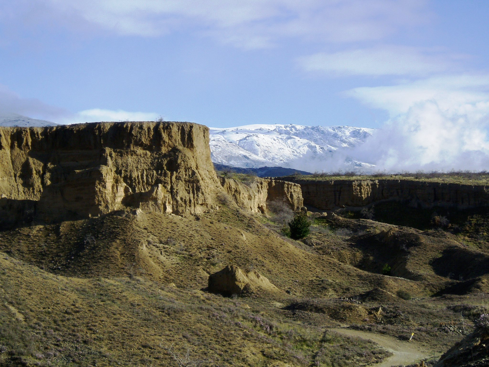 Gold Sluicings in Bannockburn